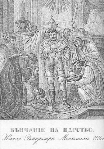 Coronation of Vladimir II Monomakh